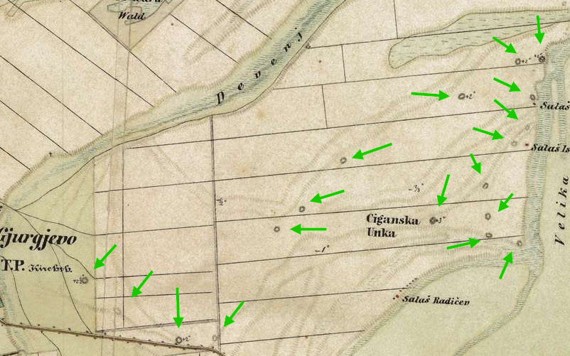 Number of kurgans up to the 19th century in the Šajkaška region